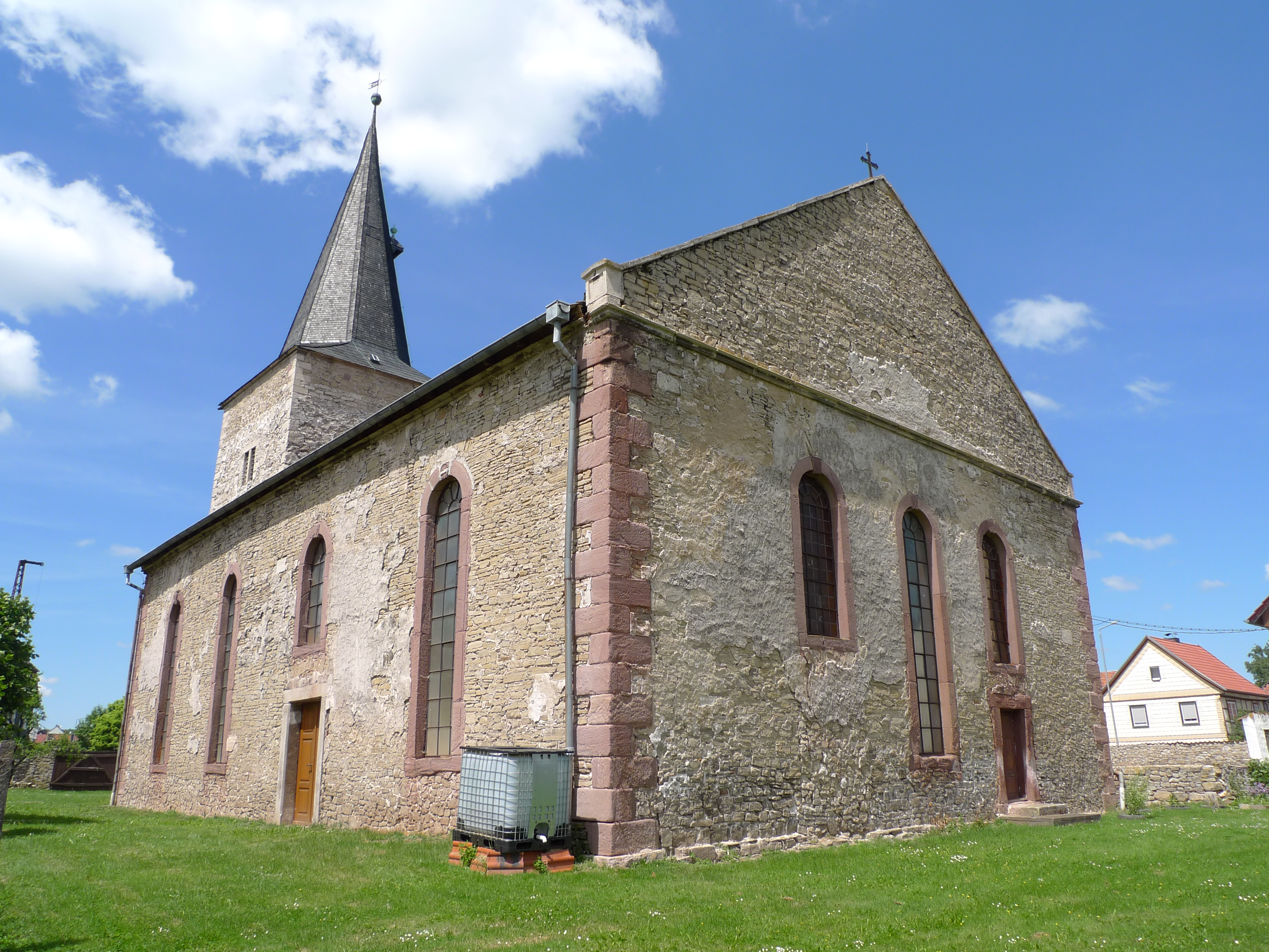 St. Petri Kirche in Mackenrode (Ortsteil von Hohenstein)